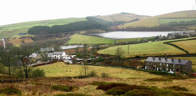 Ogden Reservoir View from the A640 Huddersfield Road in gridsquare SD9511, towards Ogden Reservoir in SD9512 and Dick Hill beyond in SD9413.